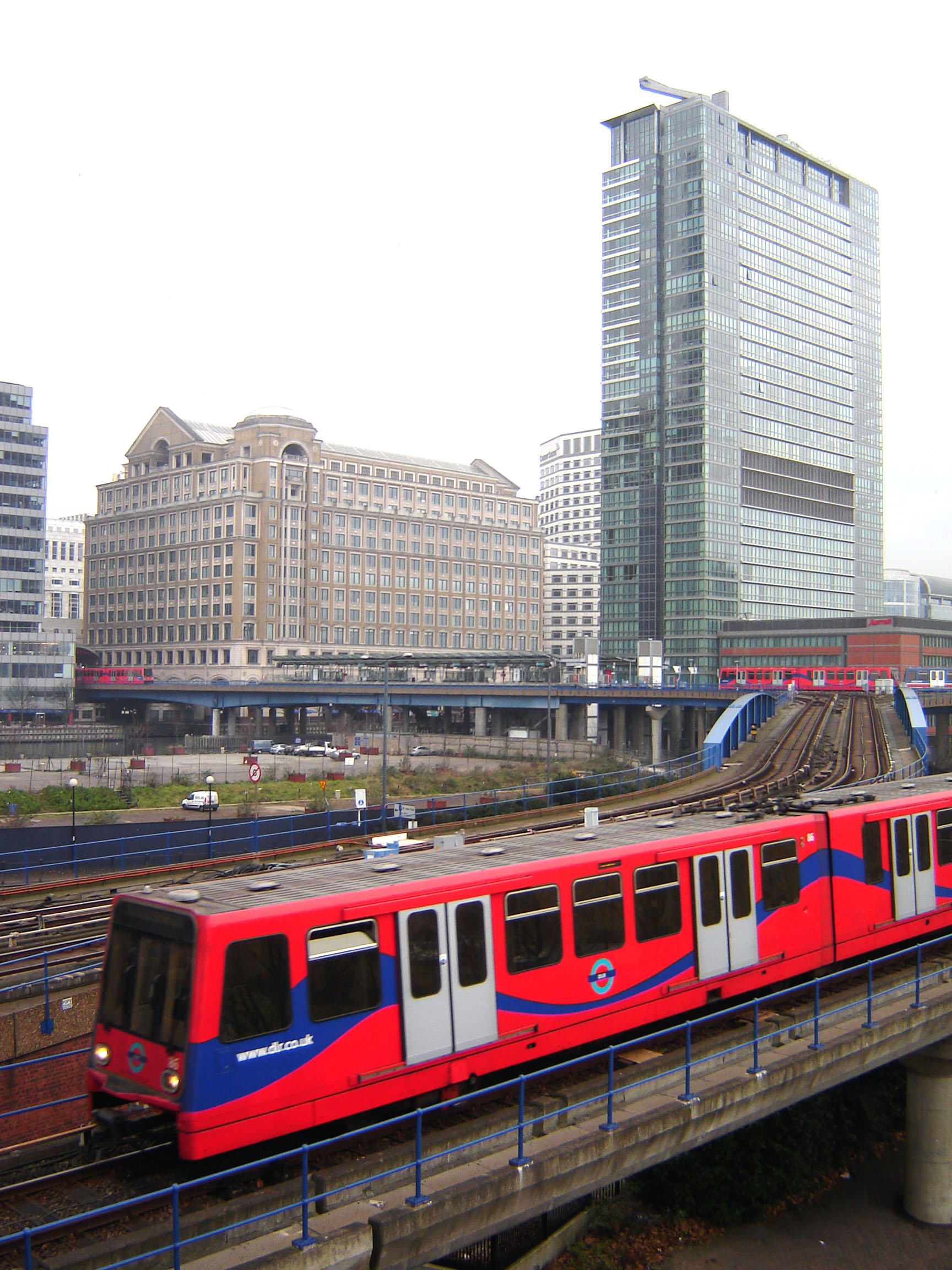 Looking SW from Poplar DLR. IANAT ('I Am Not A Trainspotter'), but I thought 3 in one pic wasn't bad...